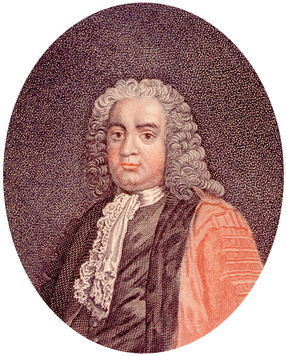 Richard Mead (1673–1754), English physician.